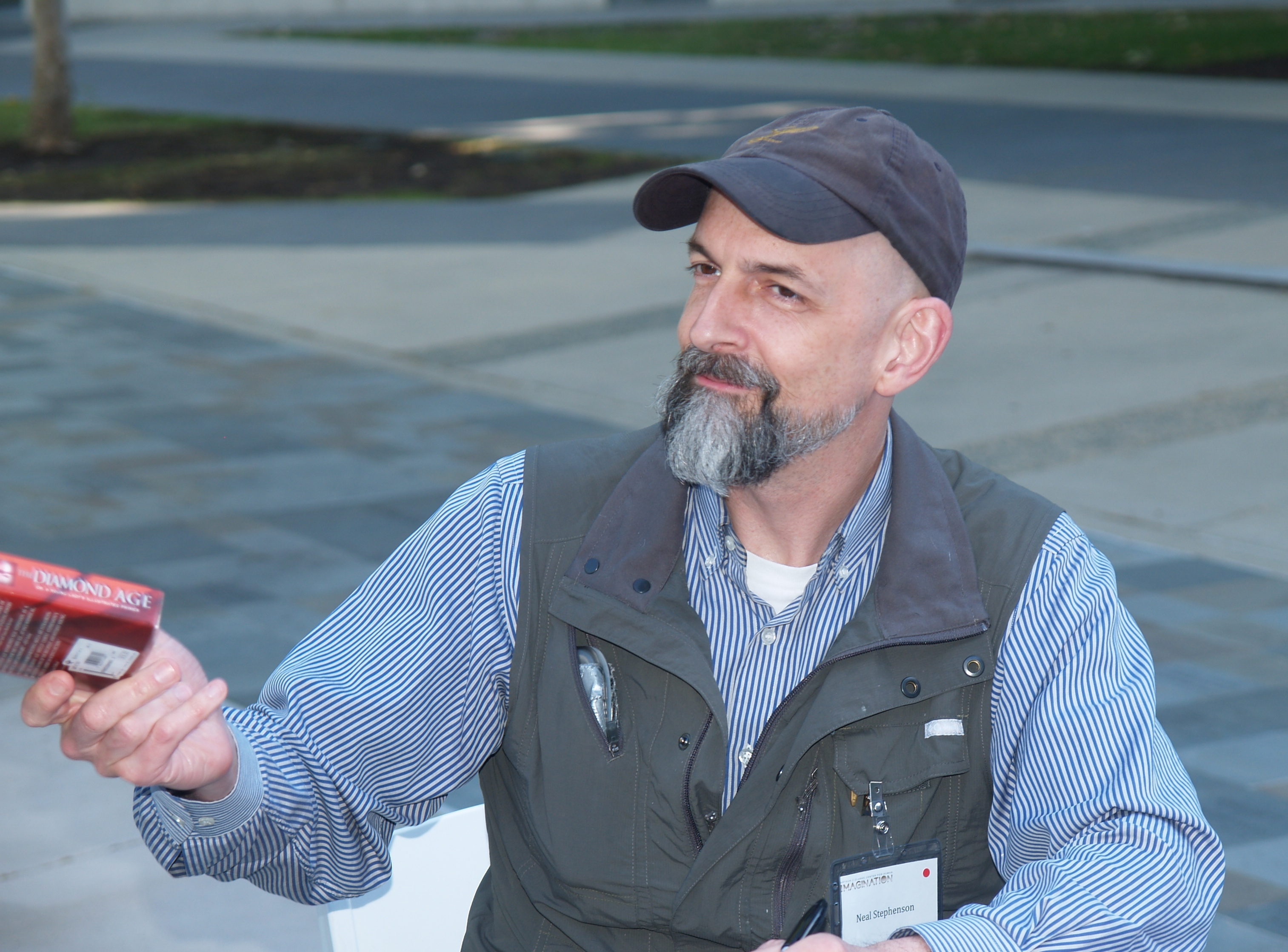 Author Neal Stephenson taken at the Starship Century Symposium at UCSD in San Diego Attribution to: Phil Konstantin